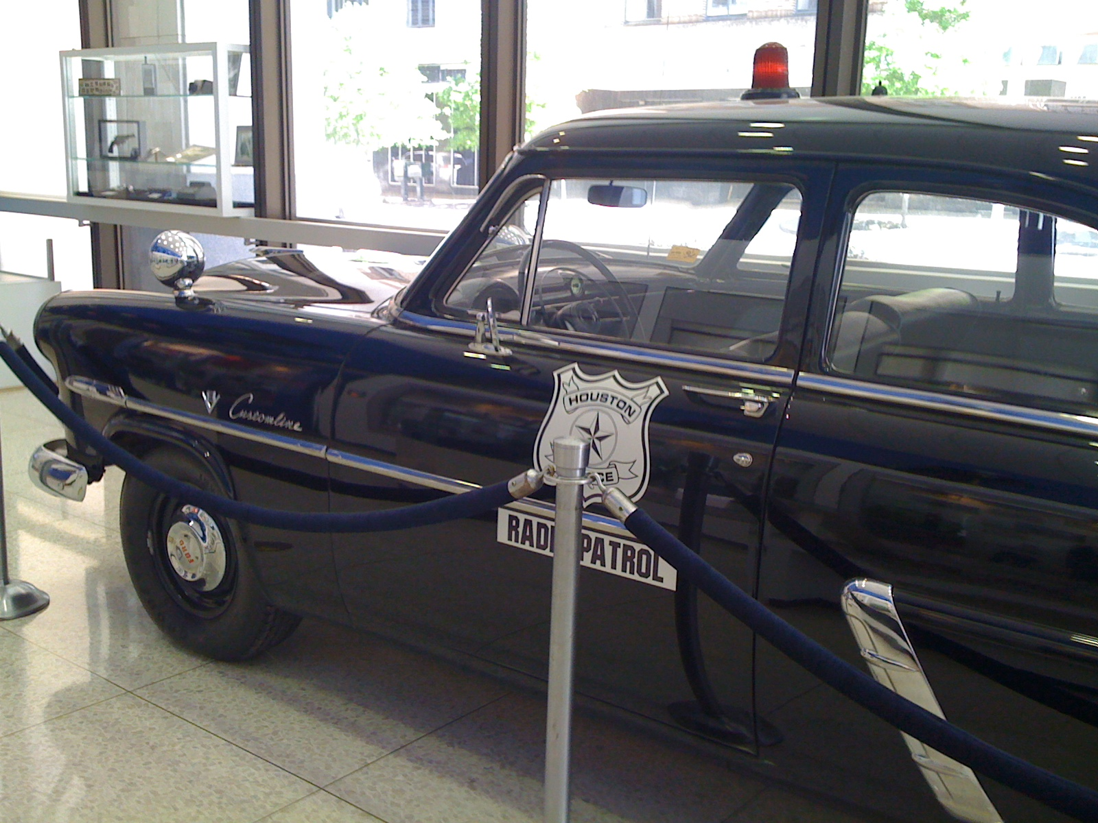 A 1952 Ford Customline patrol car that was in use by the Houston Police Department (HPD). It is now on display at the Houston Police Museum in Downtown Houston.